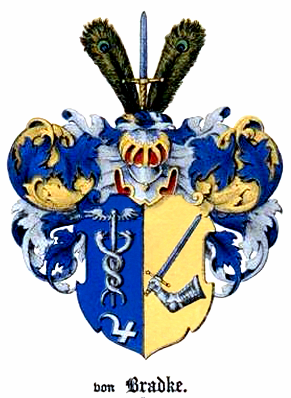 Coat of arms of Bradke